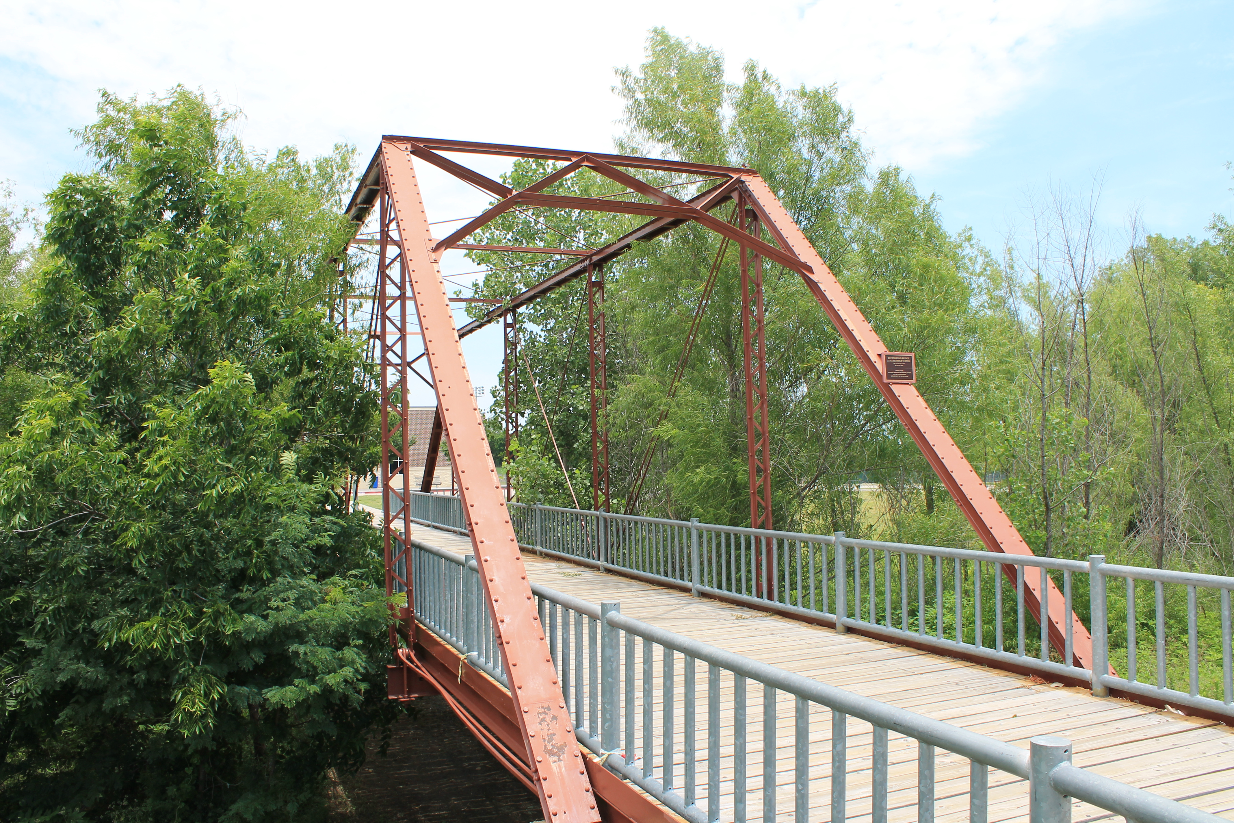 Rector Road Bridge in Denton County